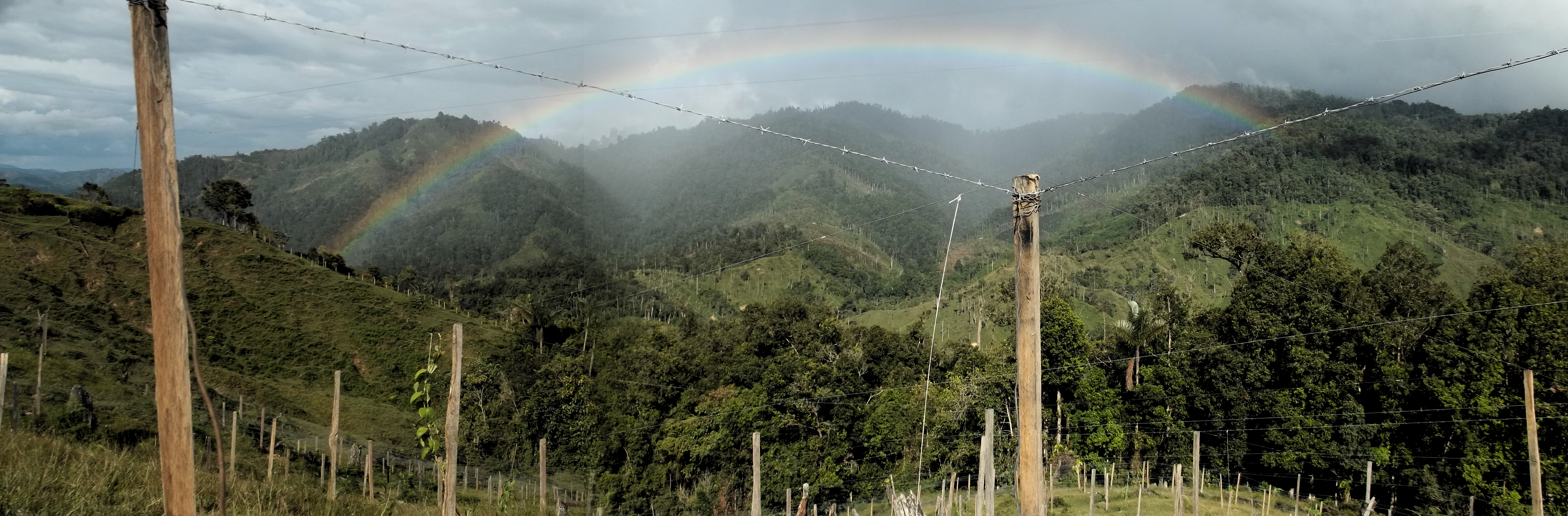 Rainbow over oak trees (Quercus humboldtii) in Acevedo, Huila, Colombia